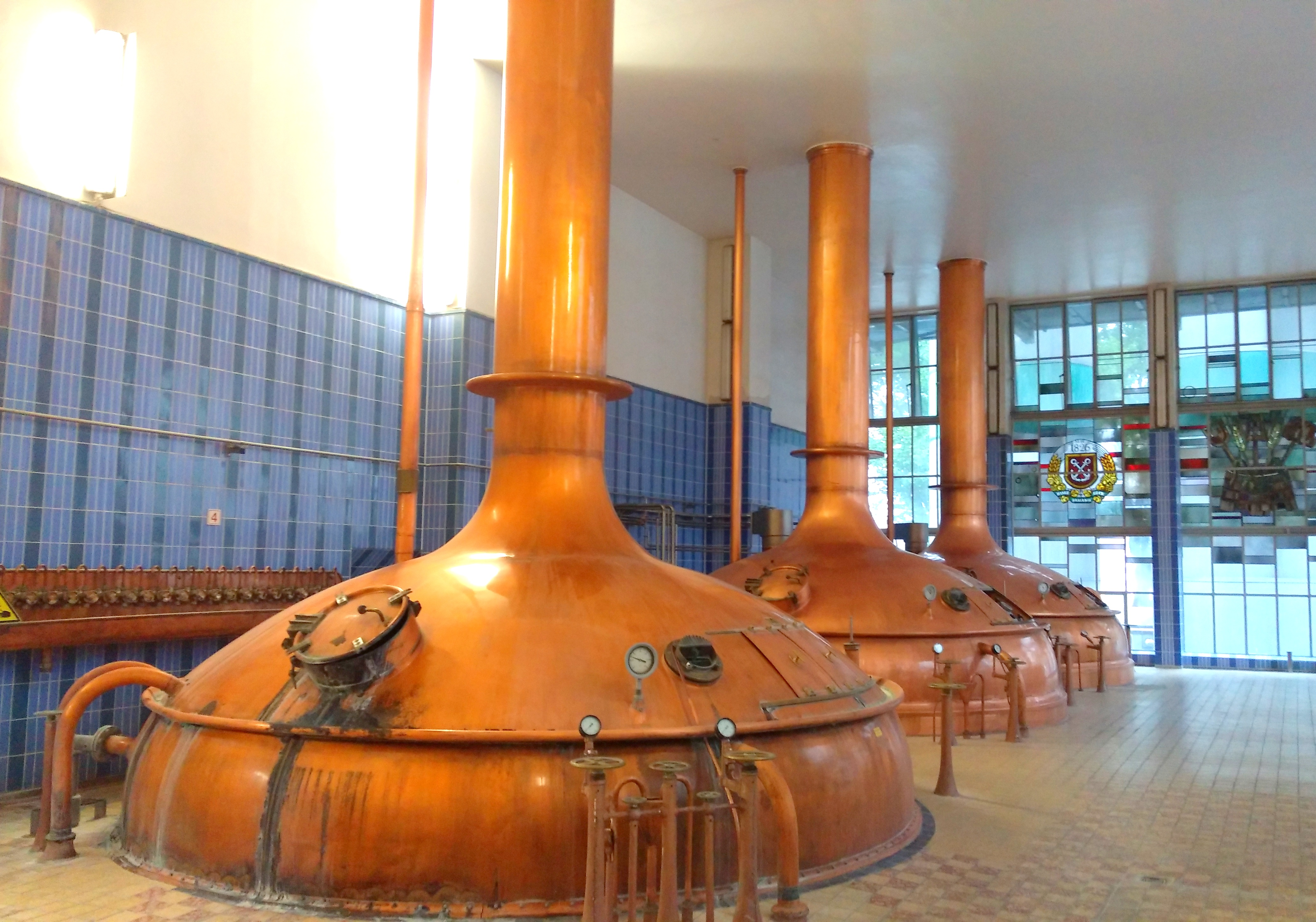 Copper boiler at Beck's beer, Bremen, Germany